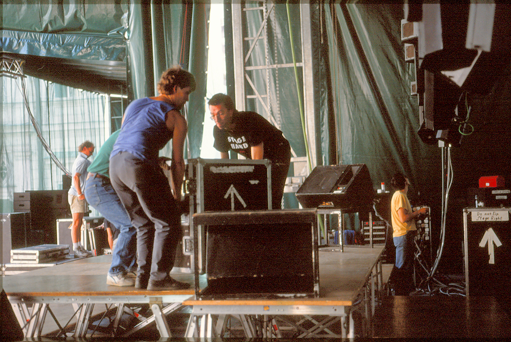 Setting up technical equipment for a concert by Chris de Burgh at Mirabell Castle in Salzburg on June 27th 1989.